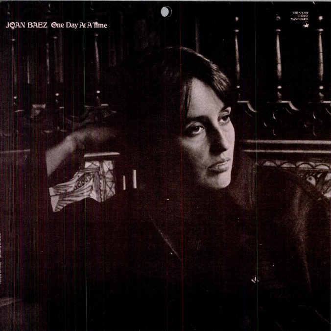 Cover of Joan Baez - One Day at a Time, 1970